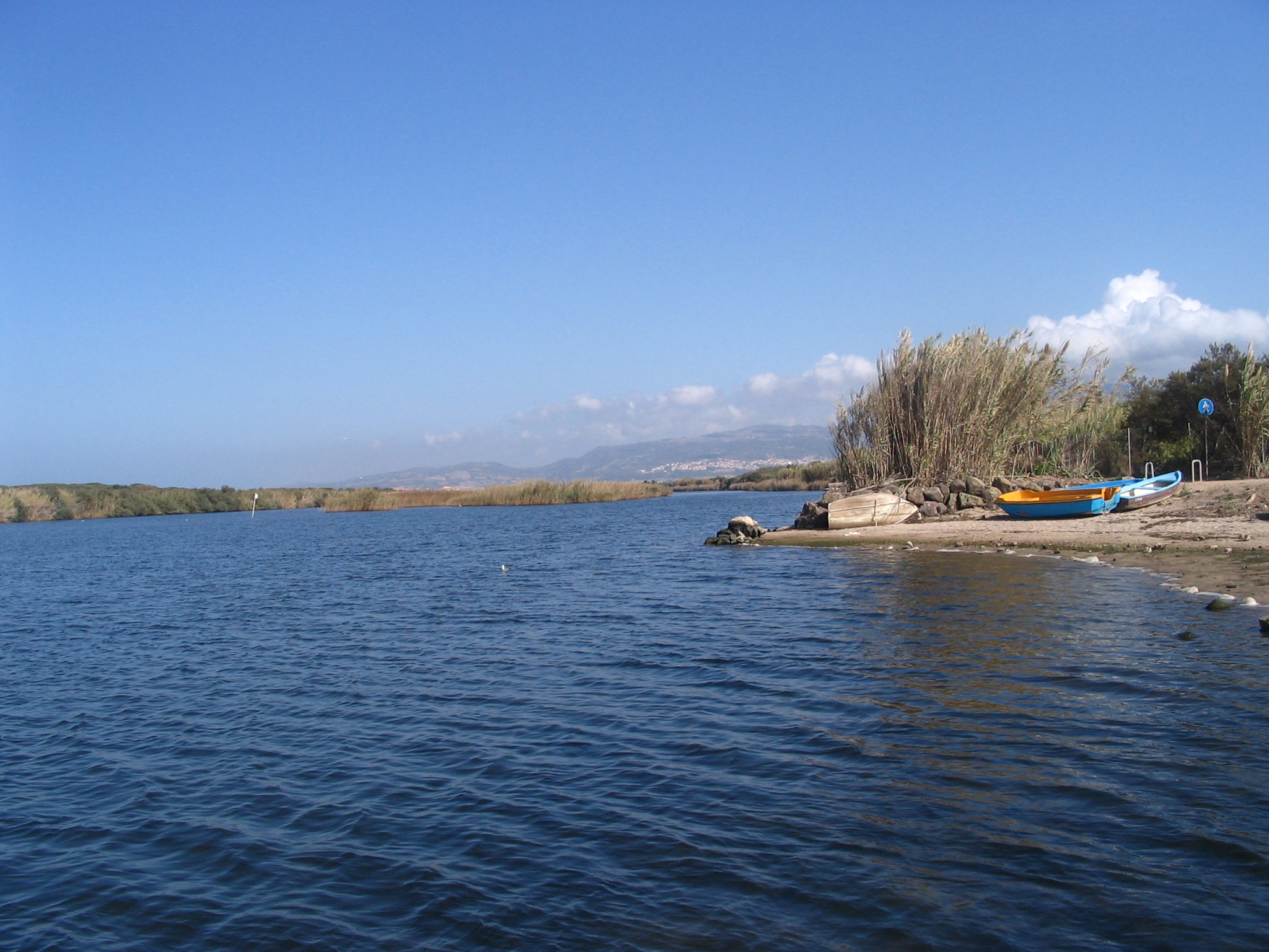 Lagoon La Perla Blu at the mouth of Coghinas River near Valledoria in Sardinia